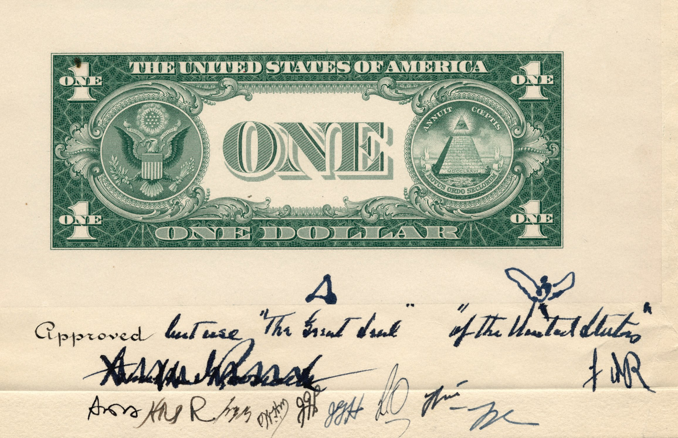 Preliminary design for the back of the 1935 dollar bill, the first to include the Great Seal of the United States, with Franklin Roosevelt's note of approval and request for two changes. This initial version had the obverse of the seal on the left and the reverse on the right, but Roosevelt ordered them switched, and added the phrase "The Great Seal of the United States" underneath.